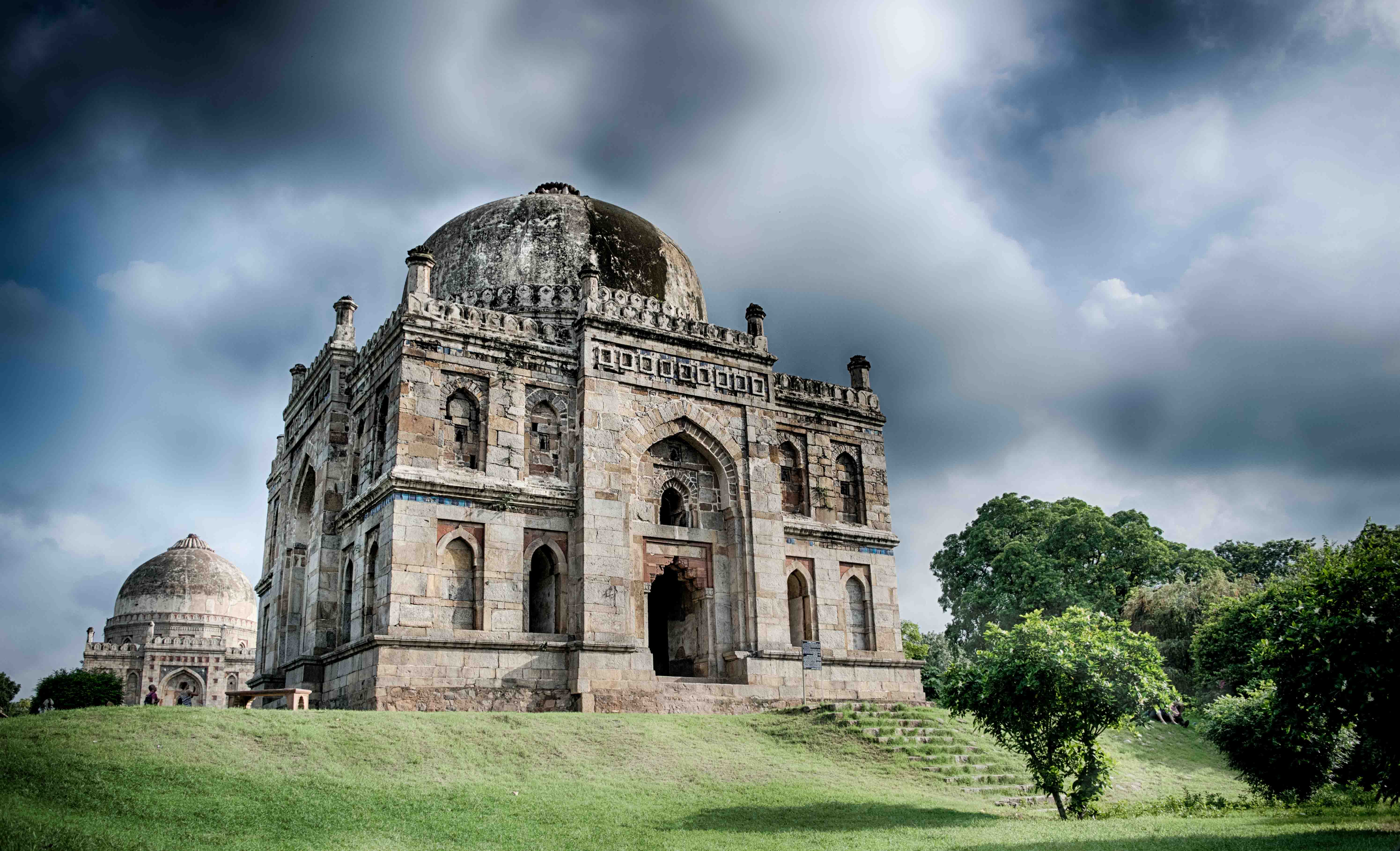 Shisha gumbad at lodhi garden on arrival of monsoon.